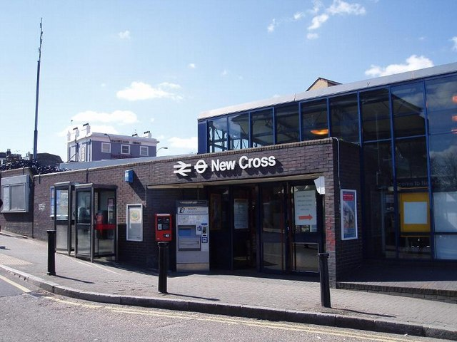 New Cross Station, SE14